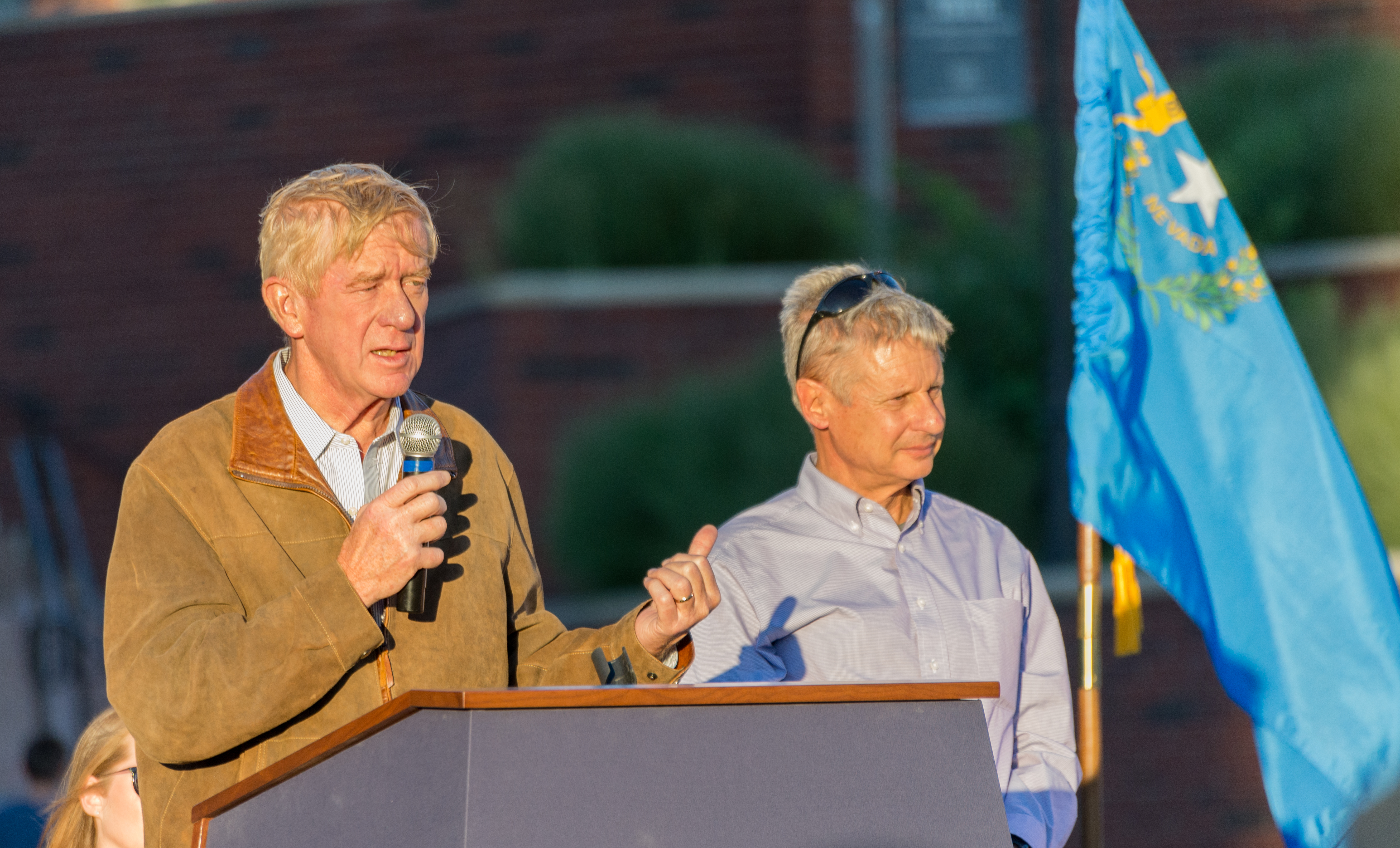 I made these photos at the first Libertarian Party political rally of the 2016 campaign season, for President and Vice-President. It was held on the campus of The University of Nevada, Reno (Nevada) on August 5th.